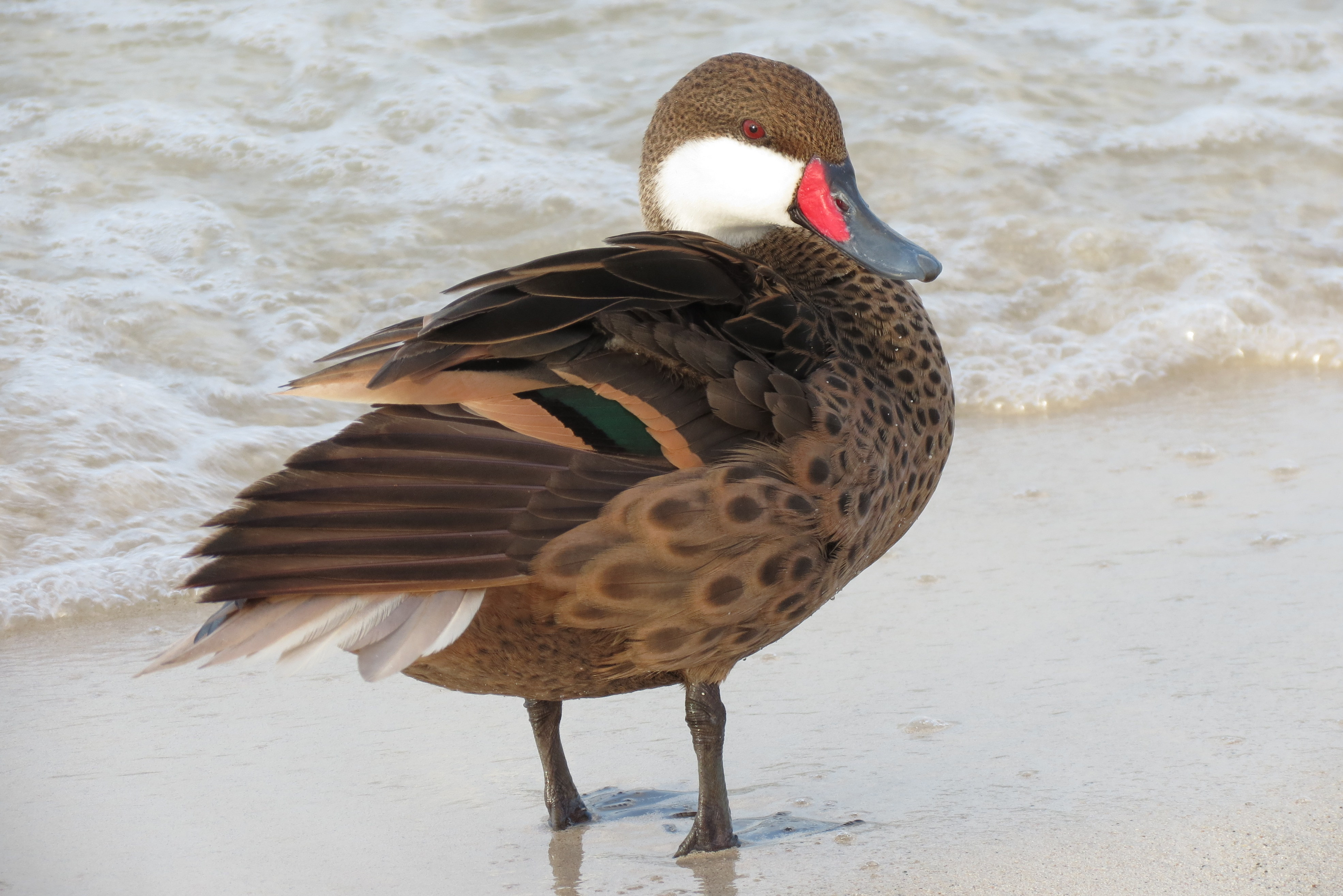 White-cheeked Pintail Anas bahamensis, St. Thomas, U.S. Virgin Islands.